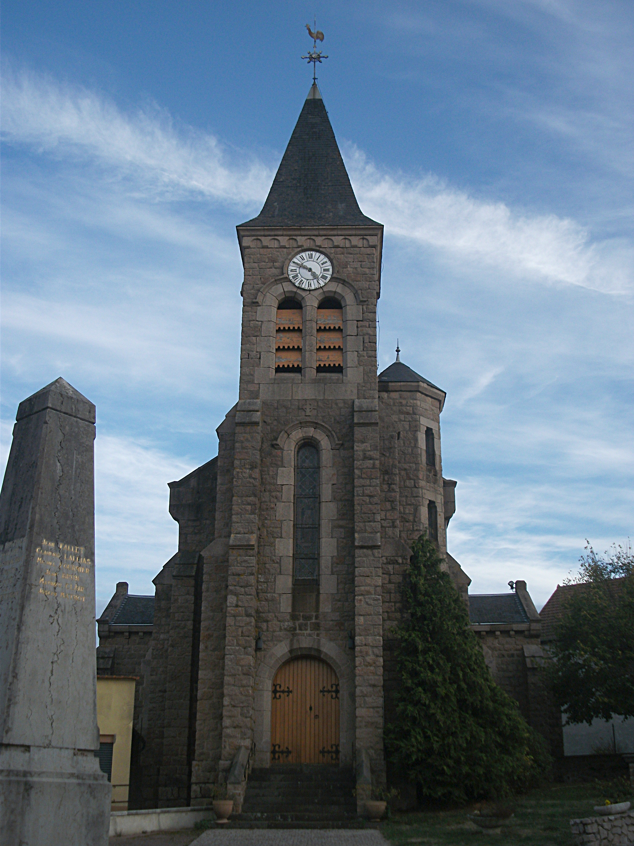 Church of Châtelus, Allier, Auvergne-Rhône-Alpes, France. [17223]